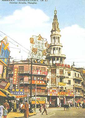 Great World Entertainment Center, Shanghai in the 1930s